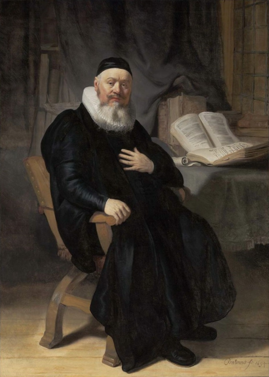 Pendant of File:21045.jpg